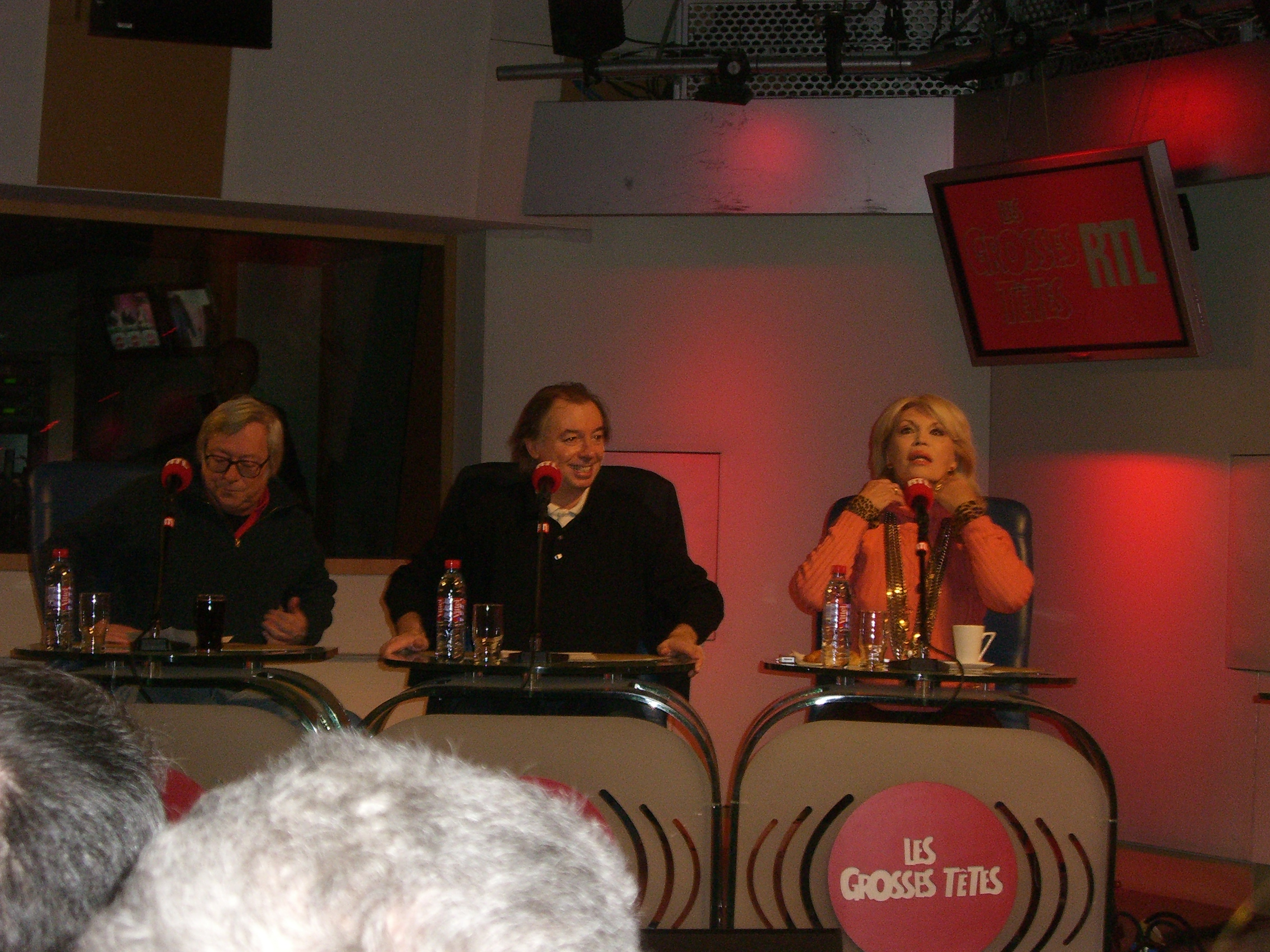 The Shareholders (Jean-Jacques Peroni, Philippe Chevallier and Amanda Lear) of the "Les Grosses Têtes" Philippe Bouvard on RTL.